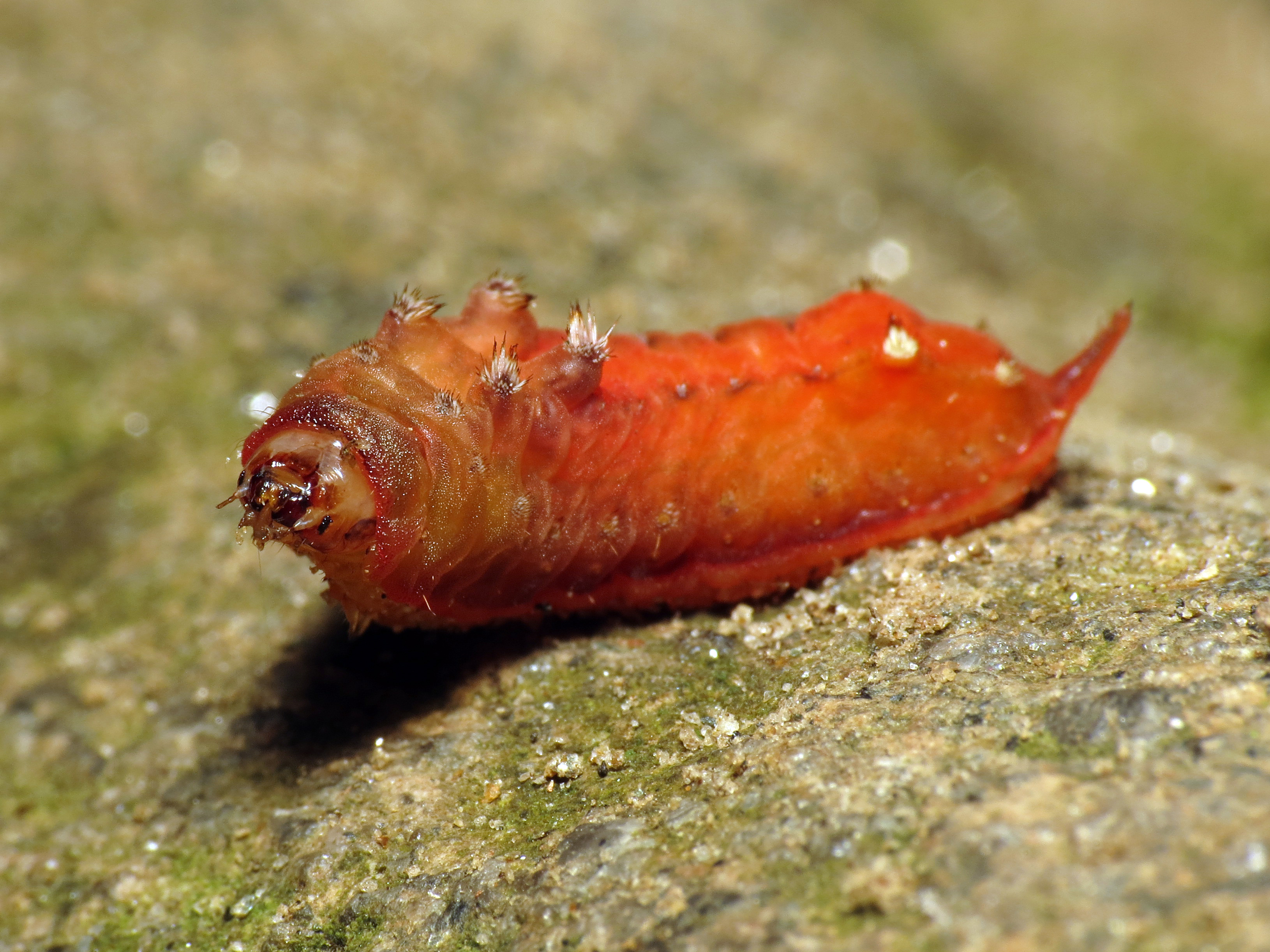 Parasa chloris. Rock Creek Park, Washington, DC, USA.